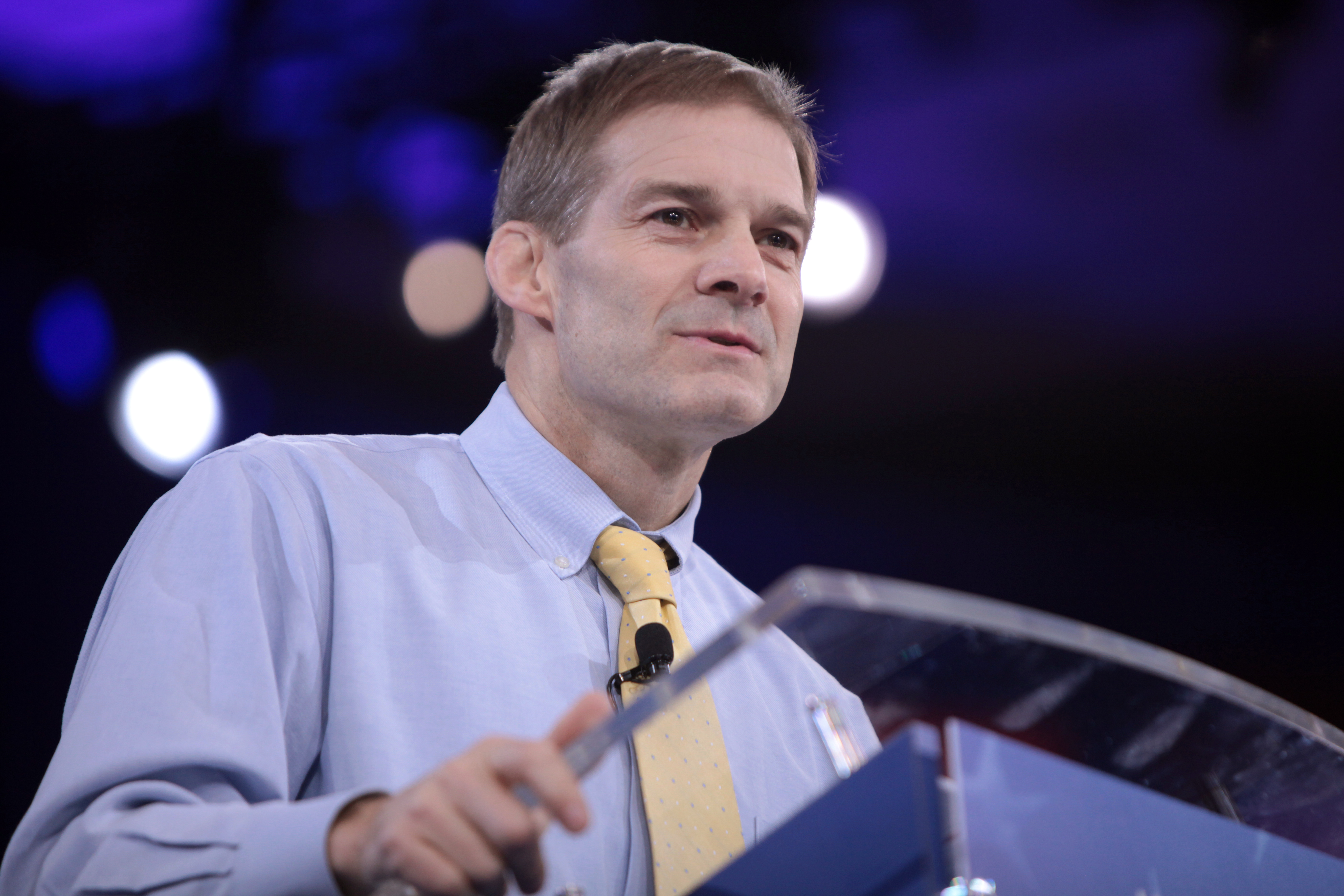 U.S. Congressman Jim Jordan of Ohio speaking at the 2016 Conservative Political Action Conference (CPAC) in National Harbor, Maryland.